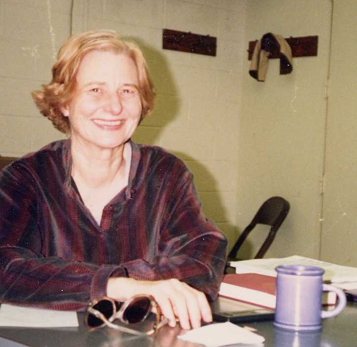 Patricia Carpenter, professor, Barnard College and Columbia University, music theorist, classroom in Dodge Hall, harmony class